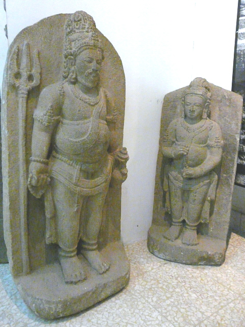 This photograph was taken at the archaeological museum at Prambanan, Java, Indonesia. It is of two statues. The statue on the left represents the sage Agastya. The trident identifies him with the god Shiva. A similar statue is found in the main temple at Prambanan, which temple is called Candi Shiva, dated to the 9th century A.D.